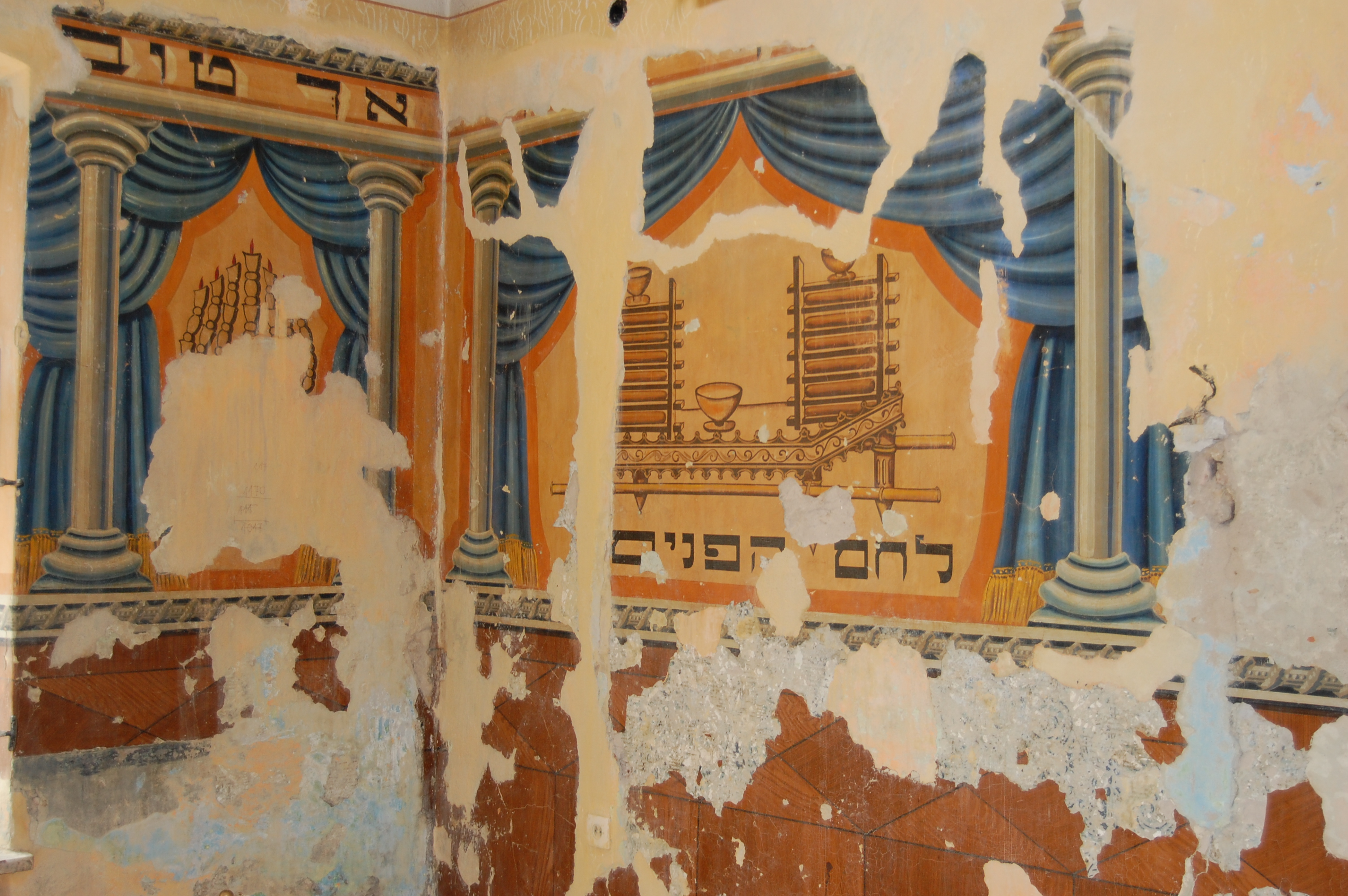 Cukerman Synagogue in Będzin